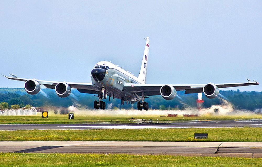 95th Reconnaissance Squadron - RC-135 Rivet Joint